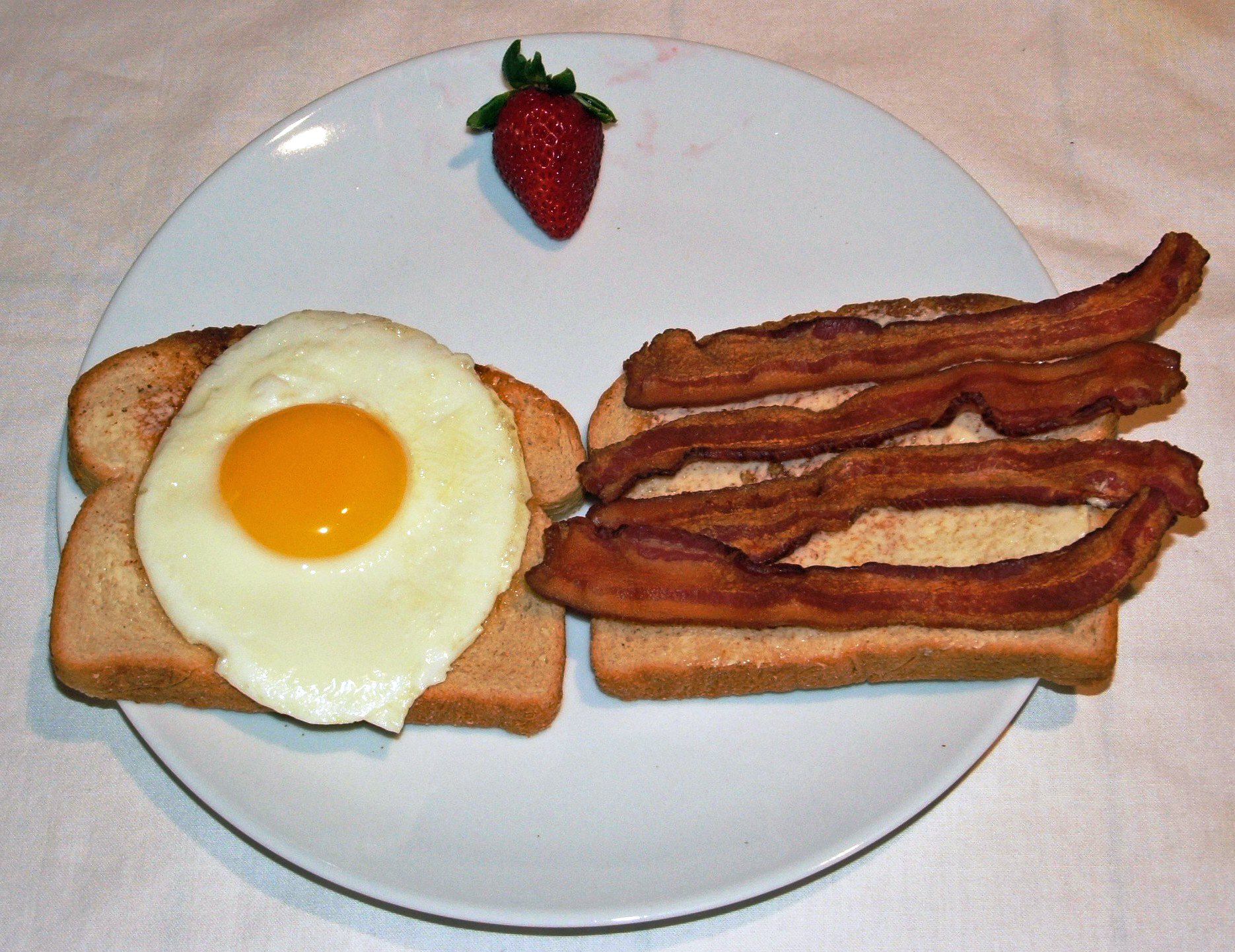 Open face bacon and egg sandwich